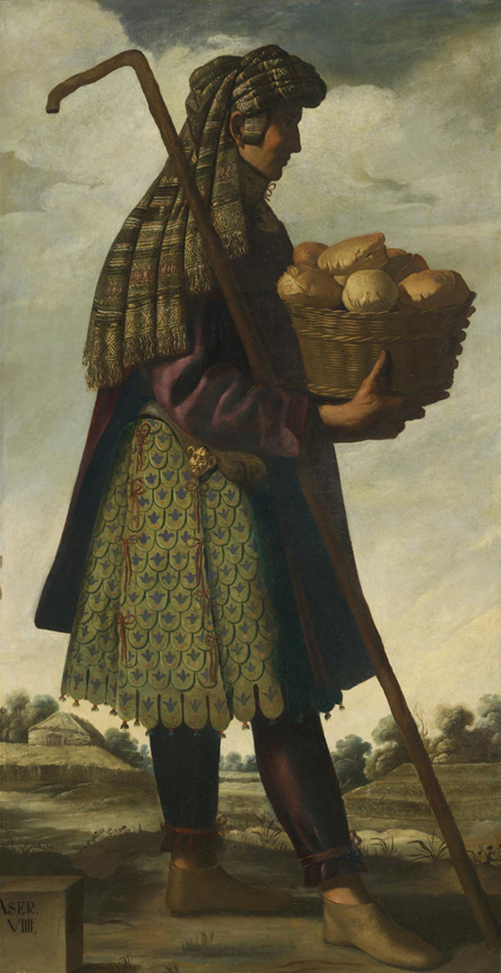 1640-1645 painting of the biblical patriarch by Francisco de Zurbarán